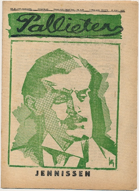 Emile Jennissen. Front page of the Flemish magazine Pallieter (1922-1928). All front pages were designed and illustrated by Jos De Swerts (1890-1939).